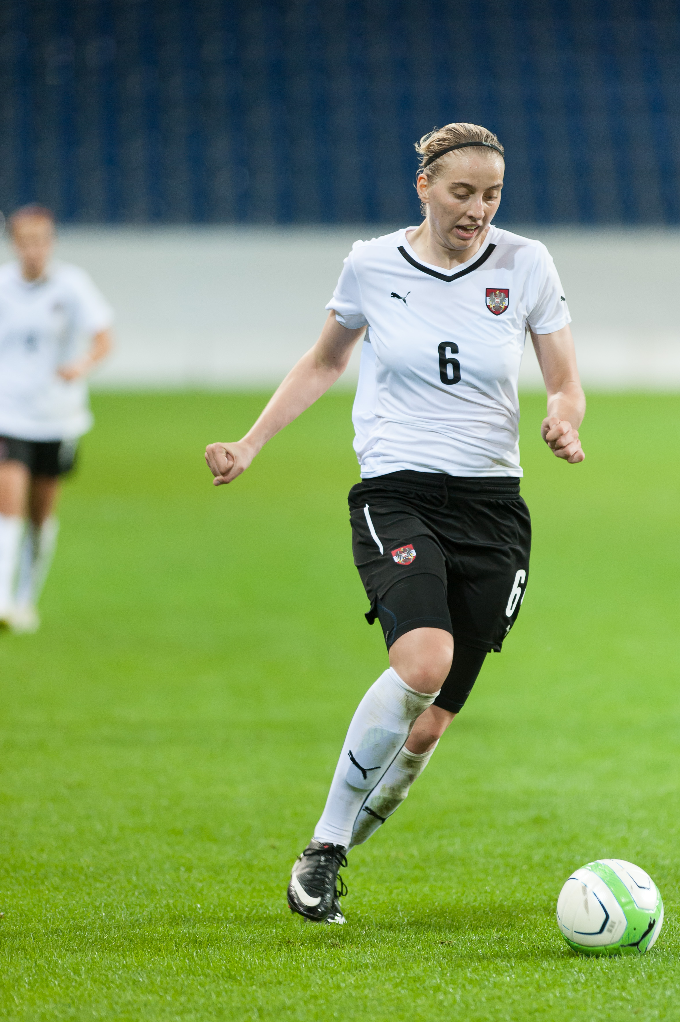 FIFA Women's World Cup 2015: Qualifying Round St. Pölten, 13.09.2014 Katharina Schiechtl